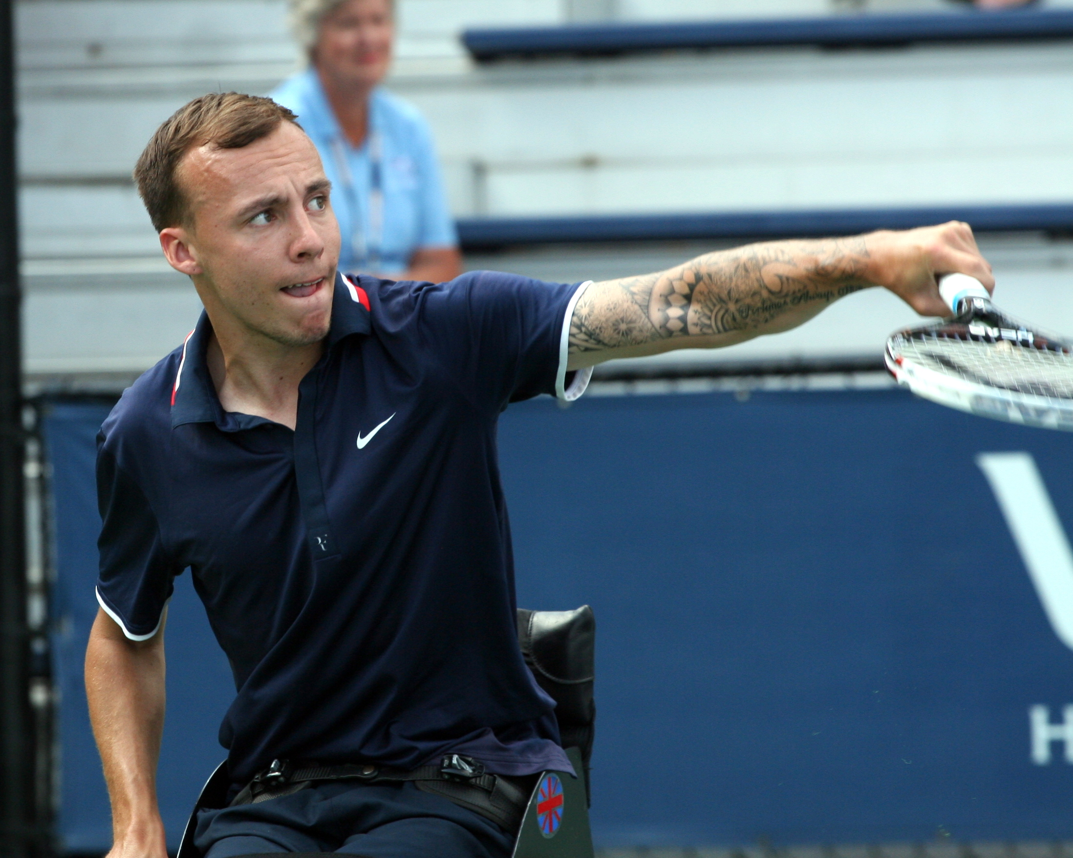 Andy Lapthorne in 2013